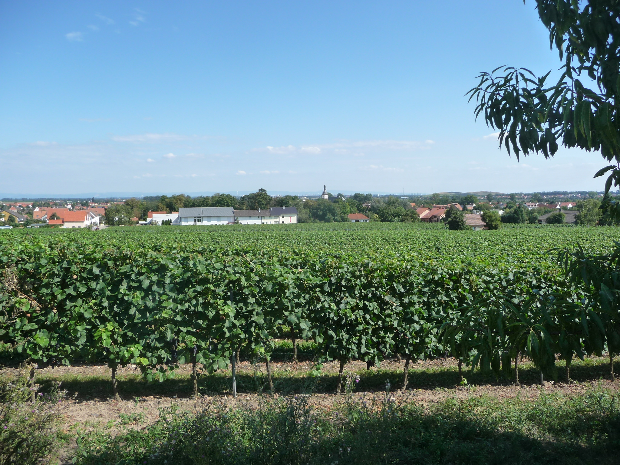 Dirmstein in the Bad Dürkheim district in Rhineland-Palatinate, Germany